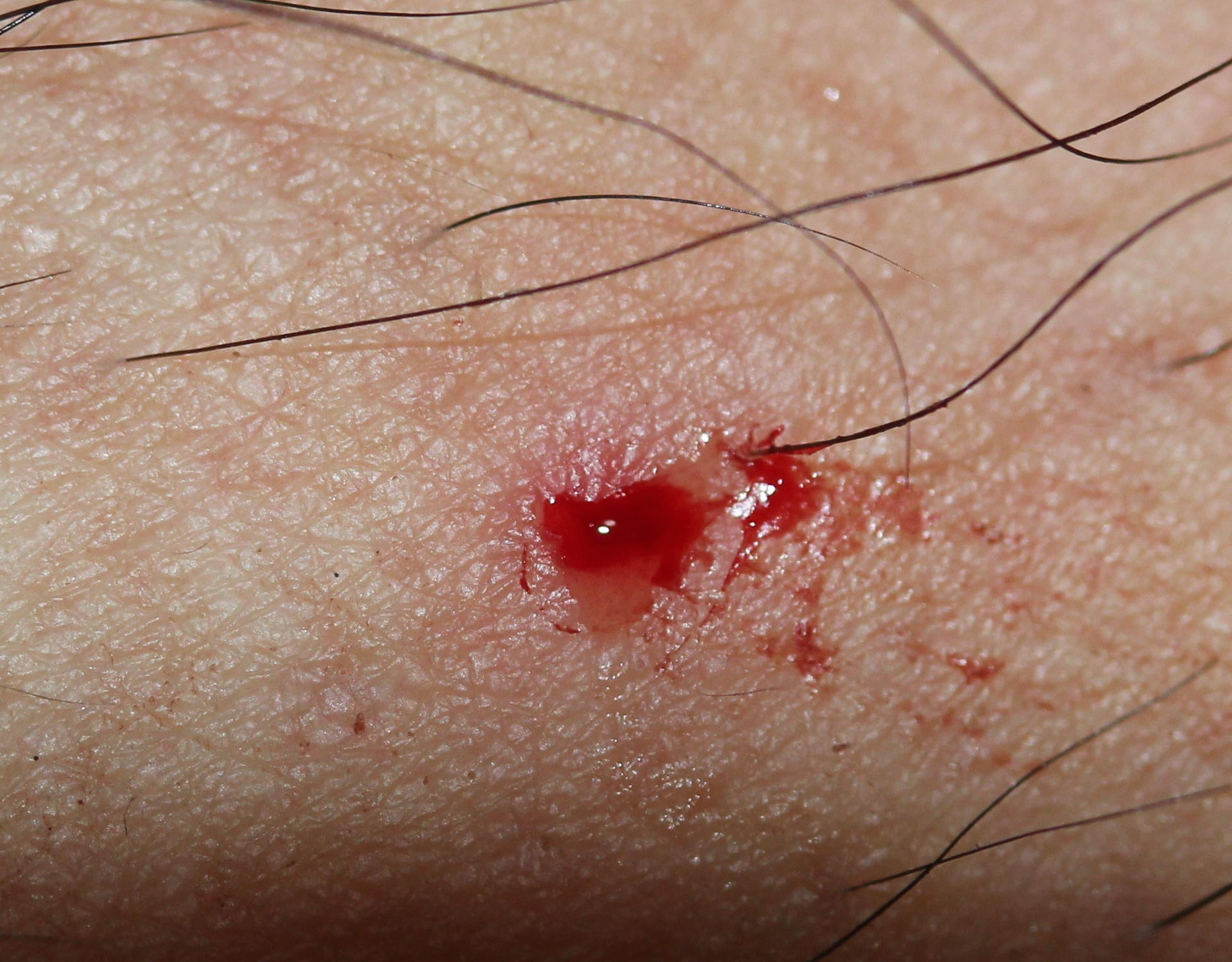 Wounds on leg by Haemadipsa zeylanica in Japan.